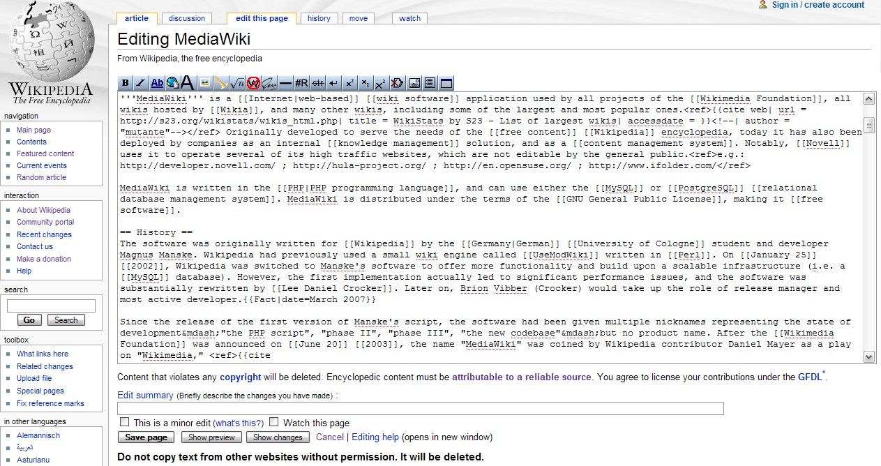 Editing interface of MediaWiki 1.9 as rendered in Firefox, showing the edit toolbar and some examples of wiki syntax via the Wikipedia article about MediaWiki